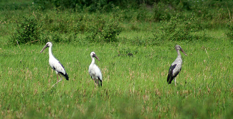 Asian Openbill, Anastomus oscitans in Kolkata, West Bengal, India.